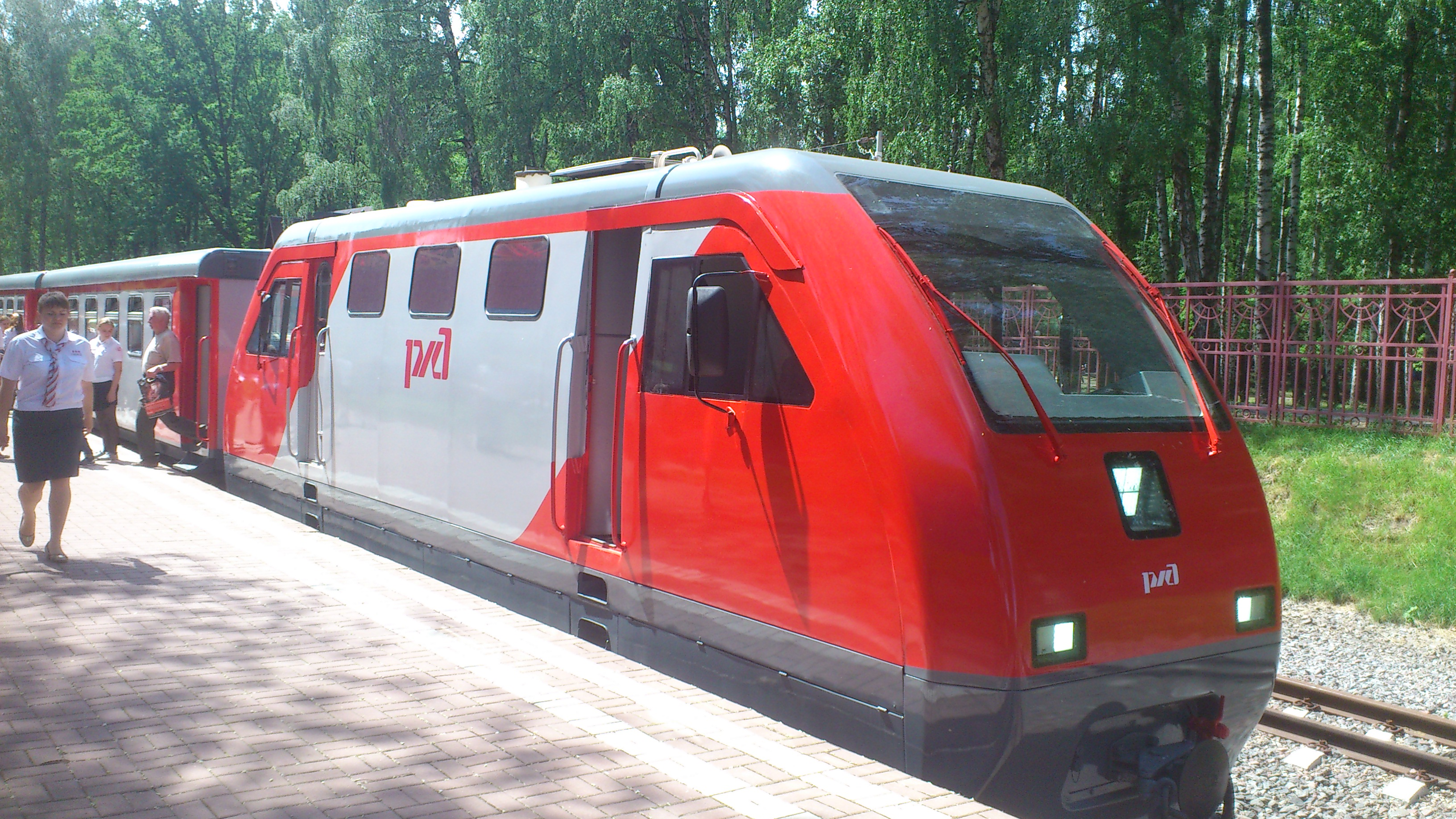 TU10-002 engine at Novomoskovsk children railway (Russia)